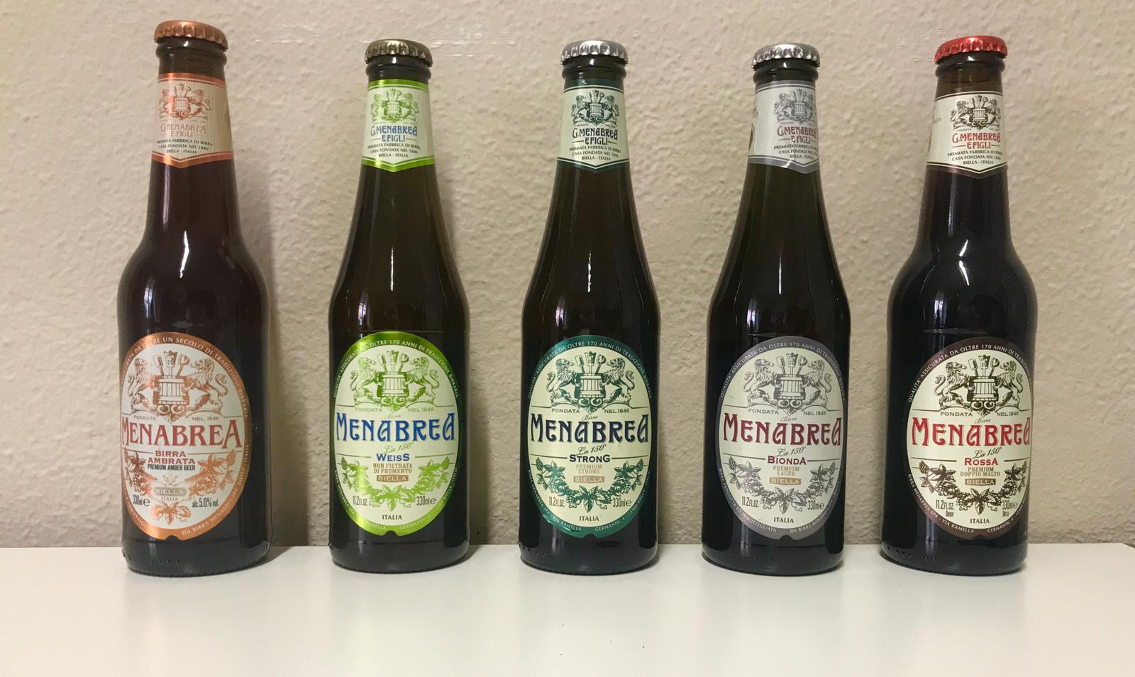 The five 150° Anniversary beers produced by Menabrea Beer